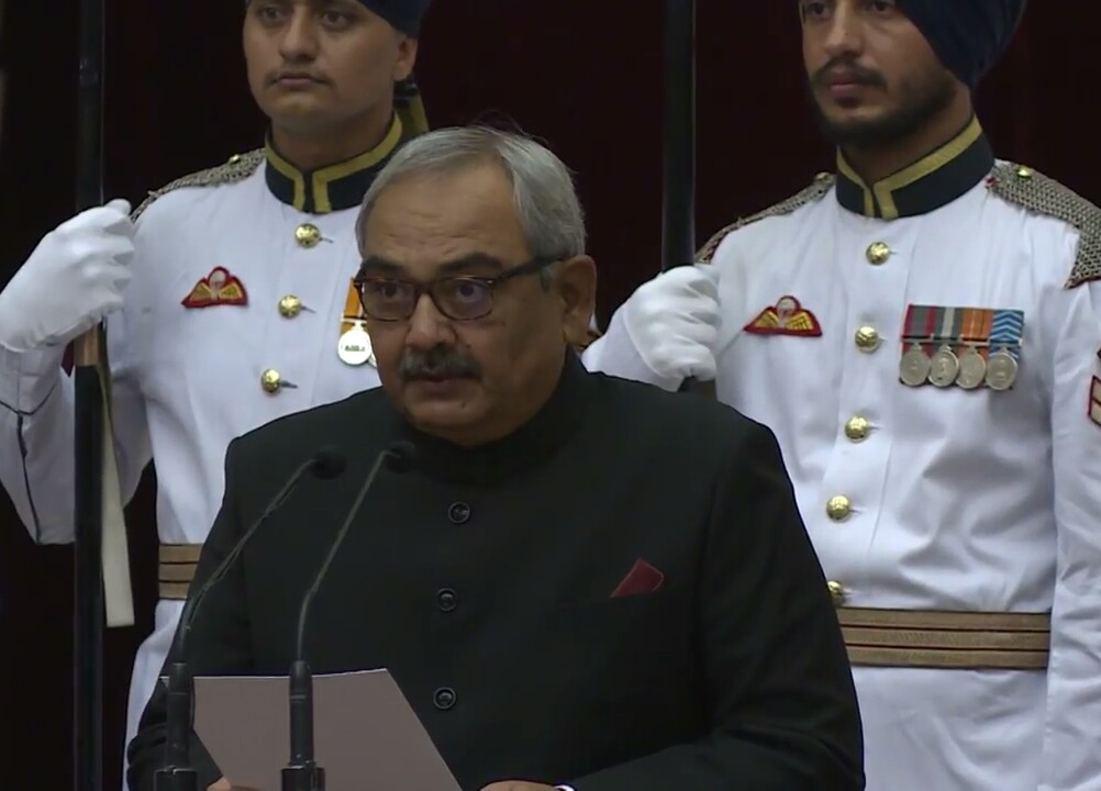 CAG of India taking oath and President of India administering oath.